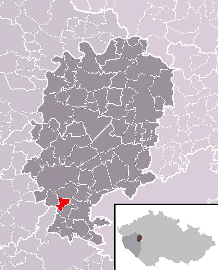 Location of Veselá municipality within Rokycany District and within identical administrative area of Rokycany as a Municipality with Extended Competence.